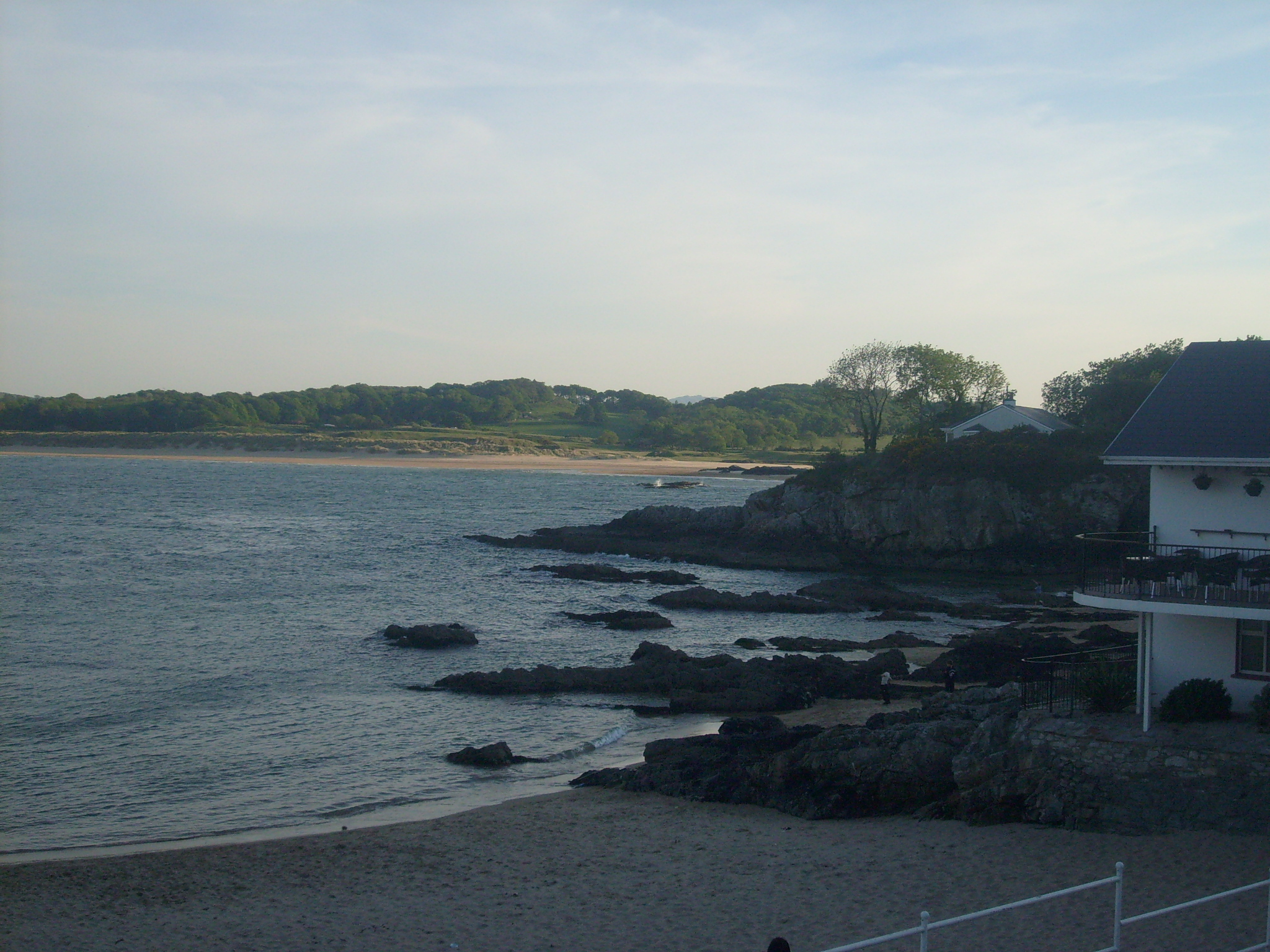 Portsalon, Co Donegal, ÉIRE (Ireland)